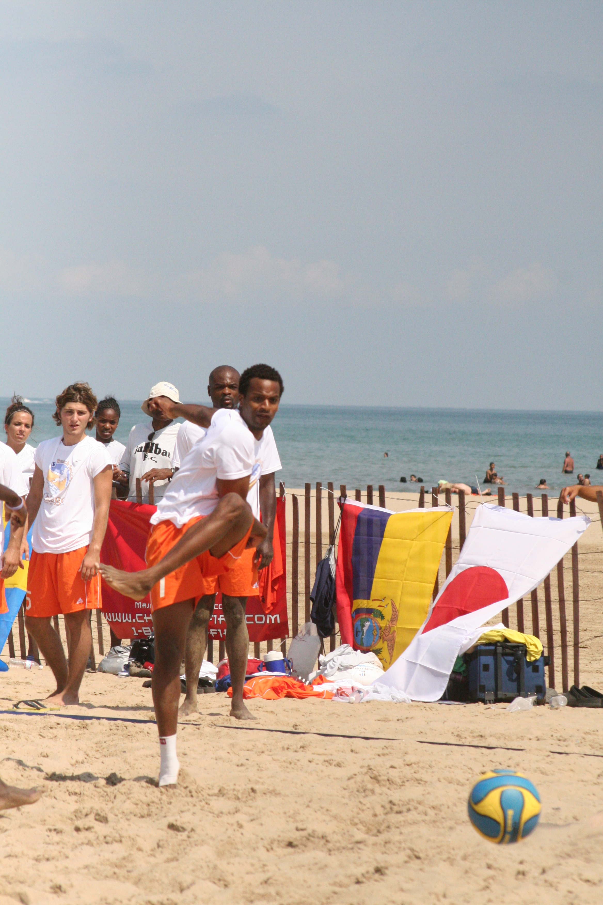 2006 Chicago Beach Soccer Invitational